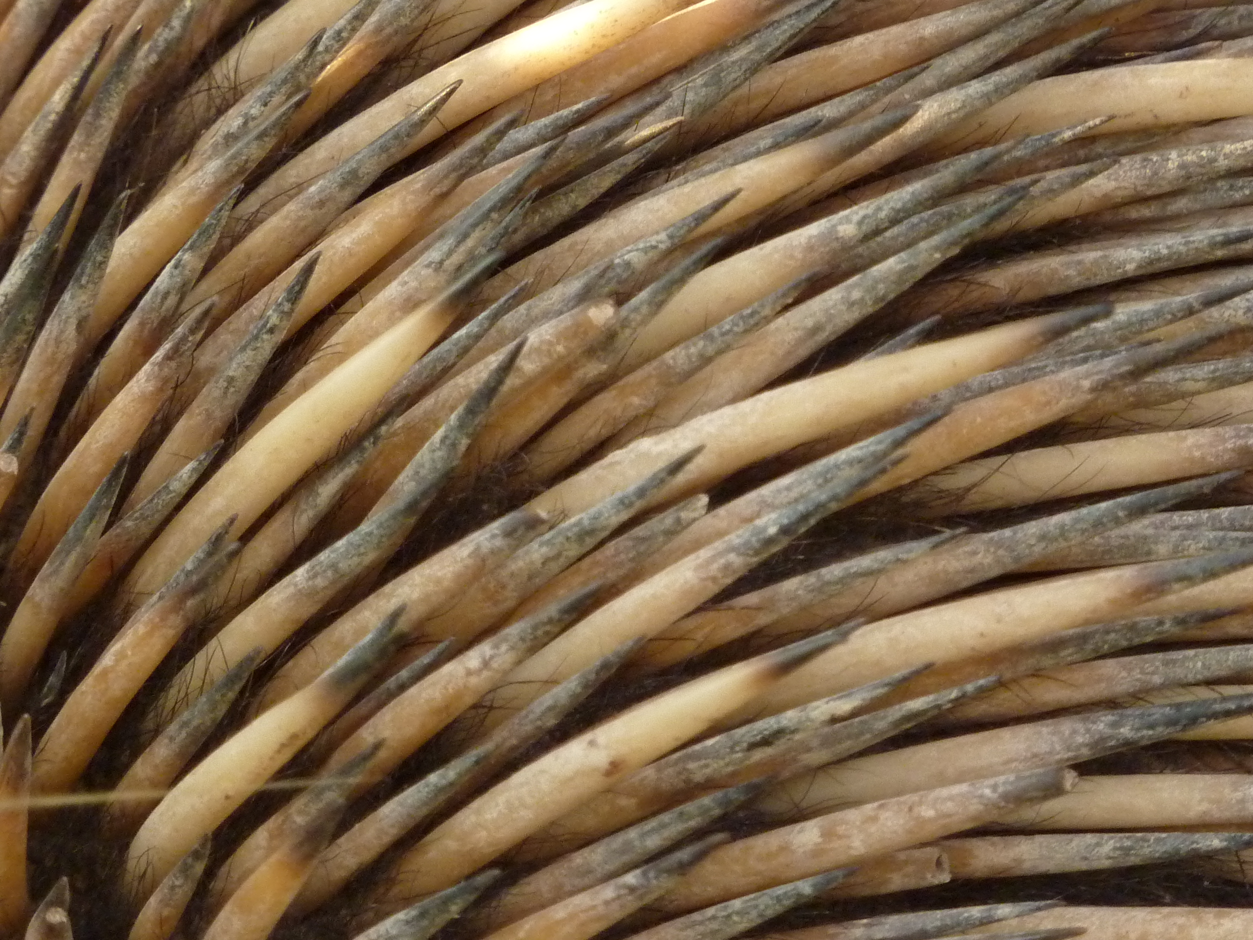 Onkaparinga River National Park, within a few km from the Old Noarlunga entrance. A echidna walking among olive trees, or hiding under one of them.